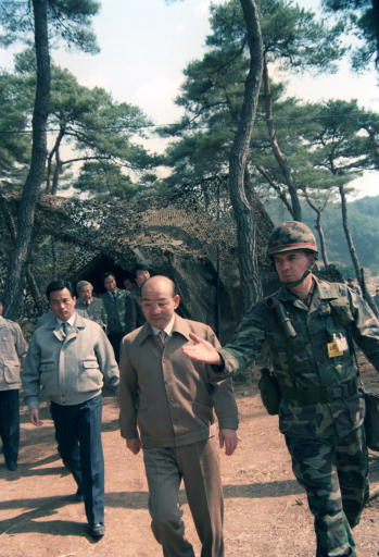 DA-SC-86-08975 Korean President Chun Doo Hwan is escorted through the headquarters of the 25th Infantry Division by Major General (MGEN) Claude M. Kicklighter, Commander, 25th Infantry Division, during the joint U.S./South Korean Exercise TEAM SPIRIT '85.